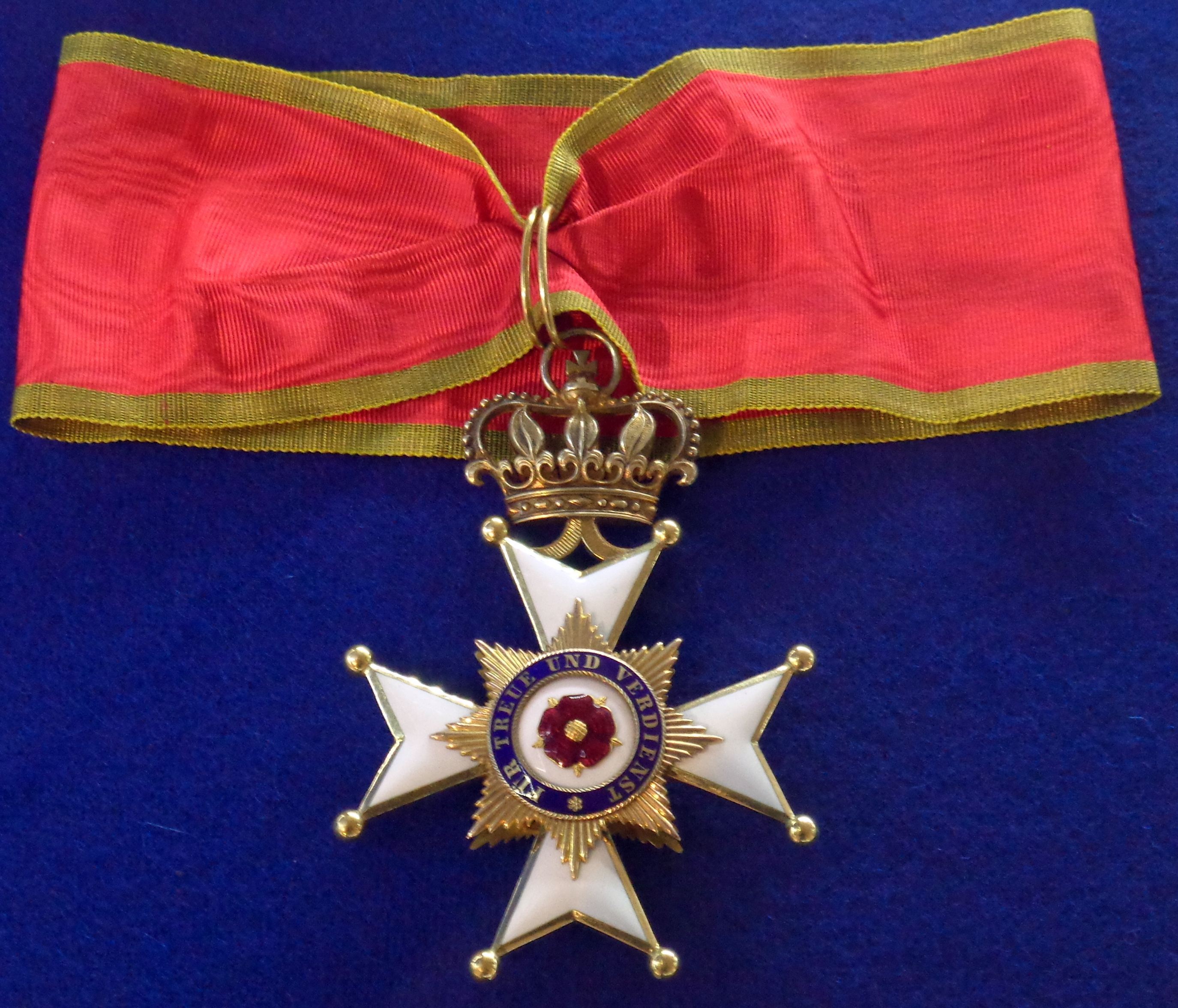 Order of the Honour Cross (House Order of Lippe), Commander's badge, 1890-1918. Principality of Lippe-Detmold. The exhibition of the Tallinn Museum of Orders of Knighthood, Estonia.